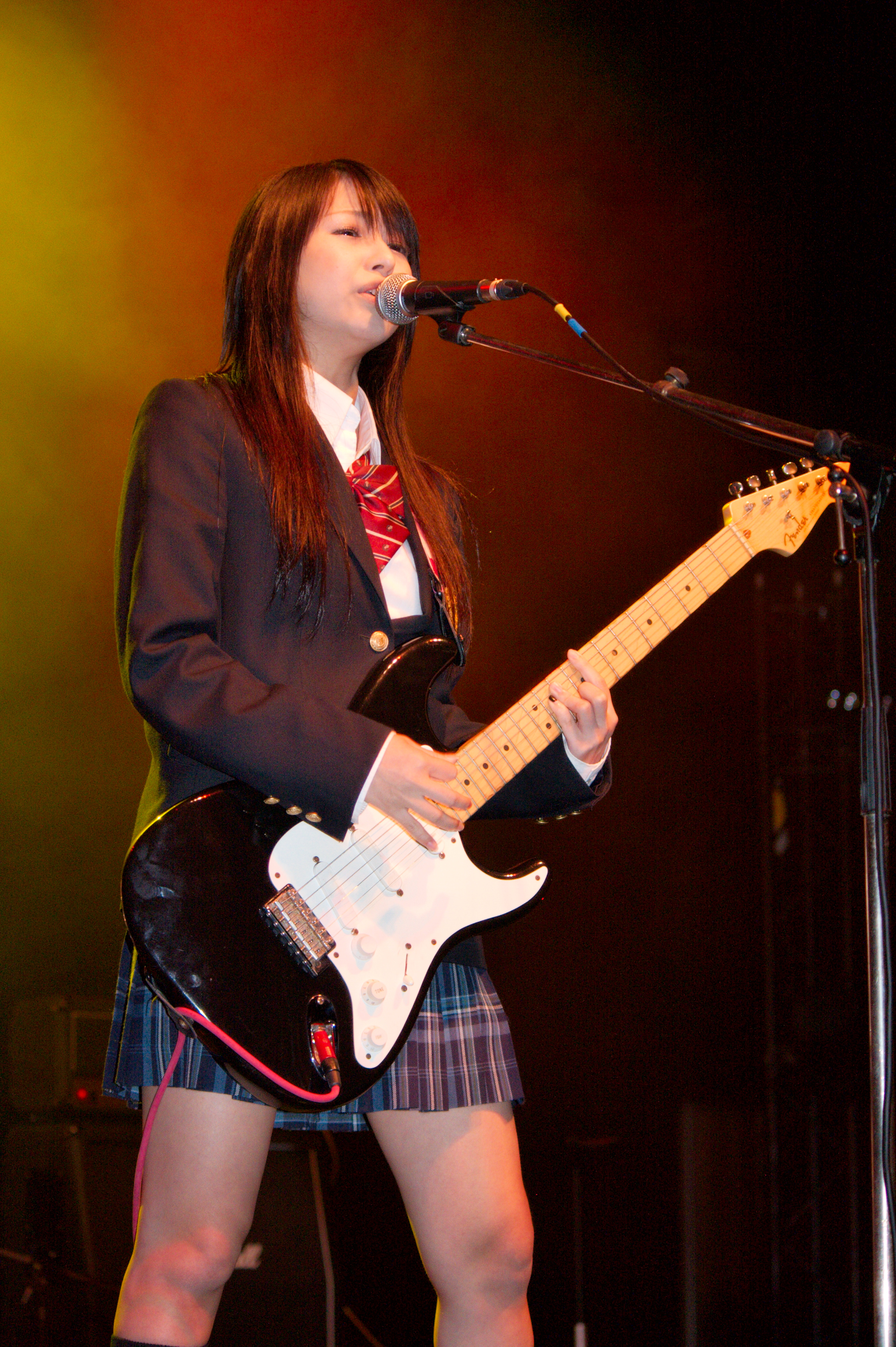 SCANDAL live at Japan Expo 2008 (Paris, France).